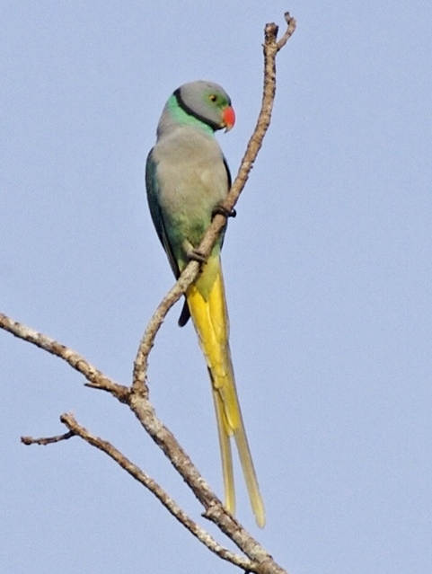 Malabar Parakeet (Psittacula columboides). A male at Thattekad, Kerala, India.